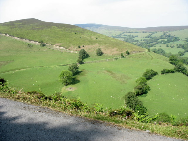 The former trackbed of the dismantled Deeside Slab Quarry tramway